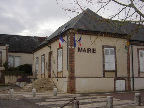 Barjouville Town Hall